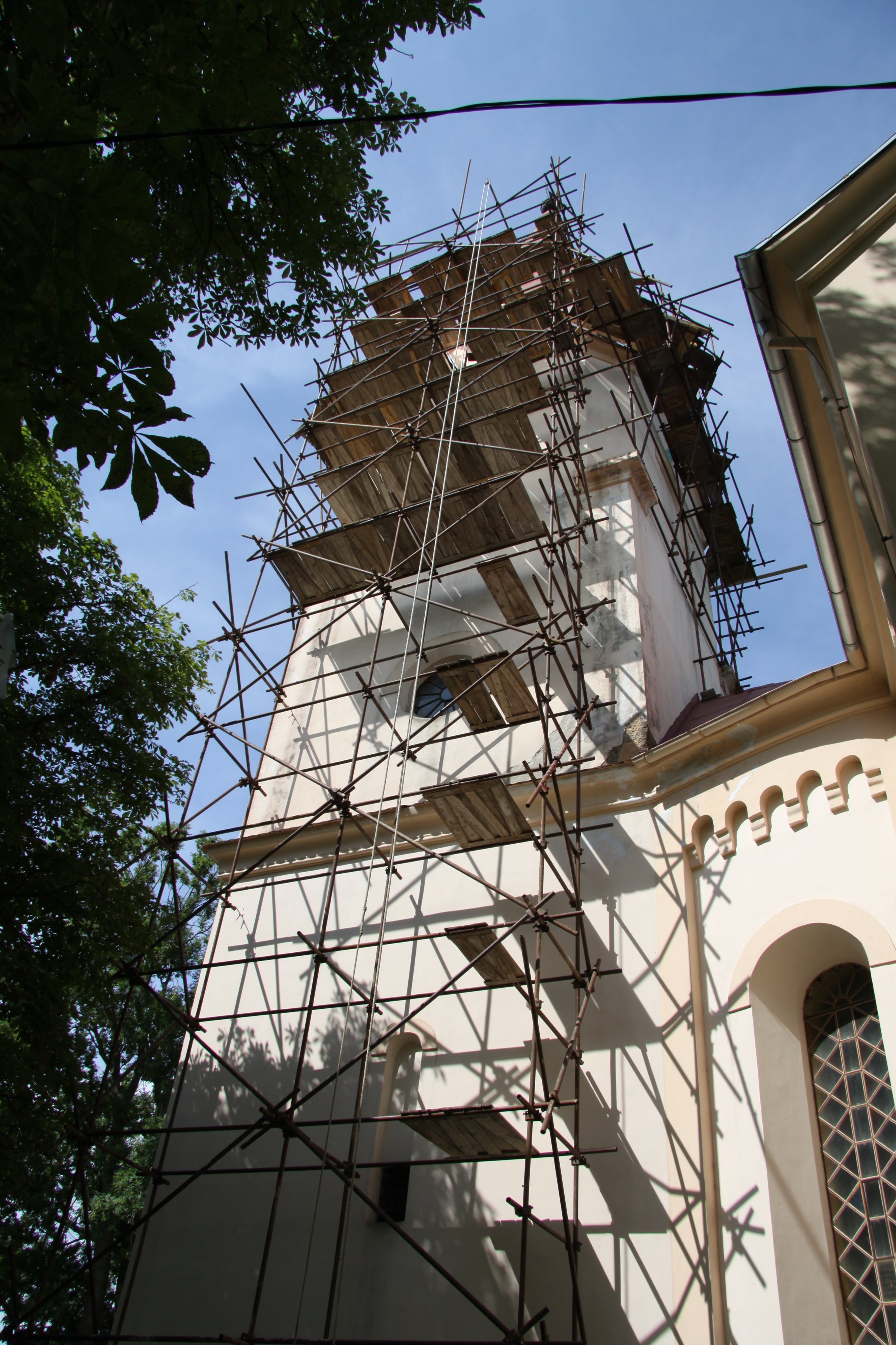 Church of Holy Trinity in Hluboš village in Příbram District, Czech Republic.